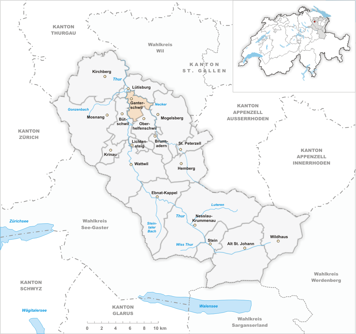 Municipality Ganterschwil